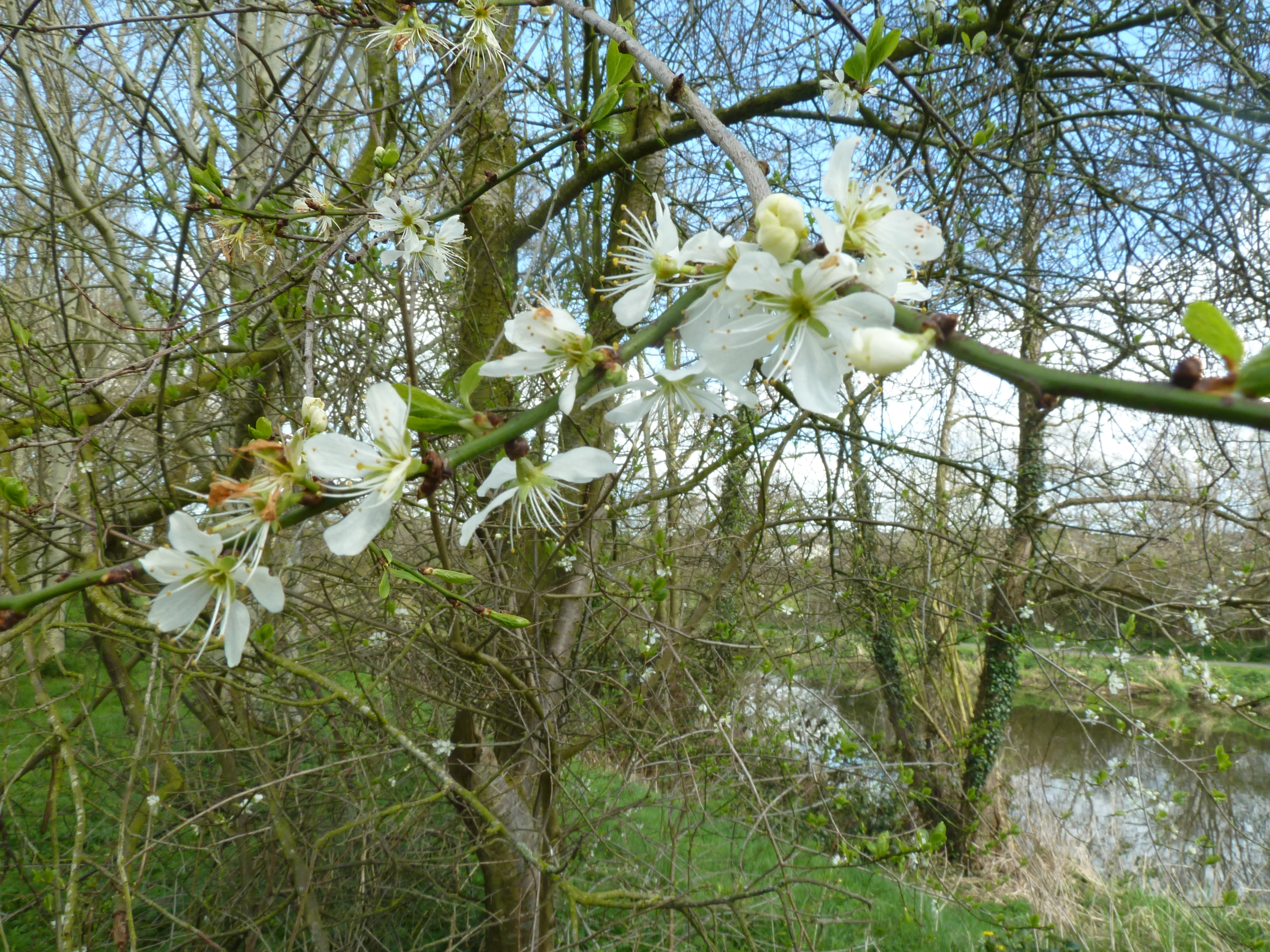 Hilden, Co. Antrim, Ireland, April 2016